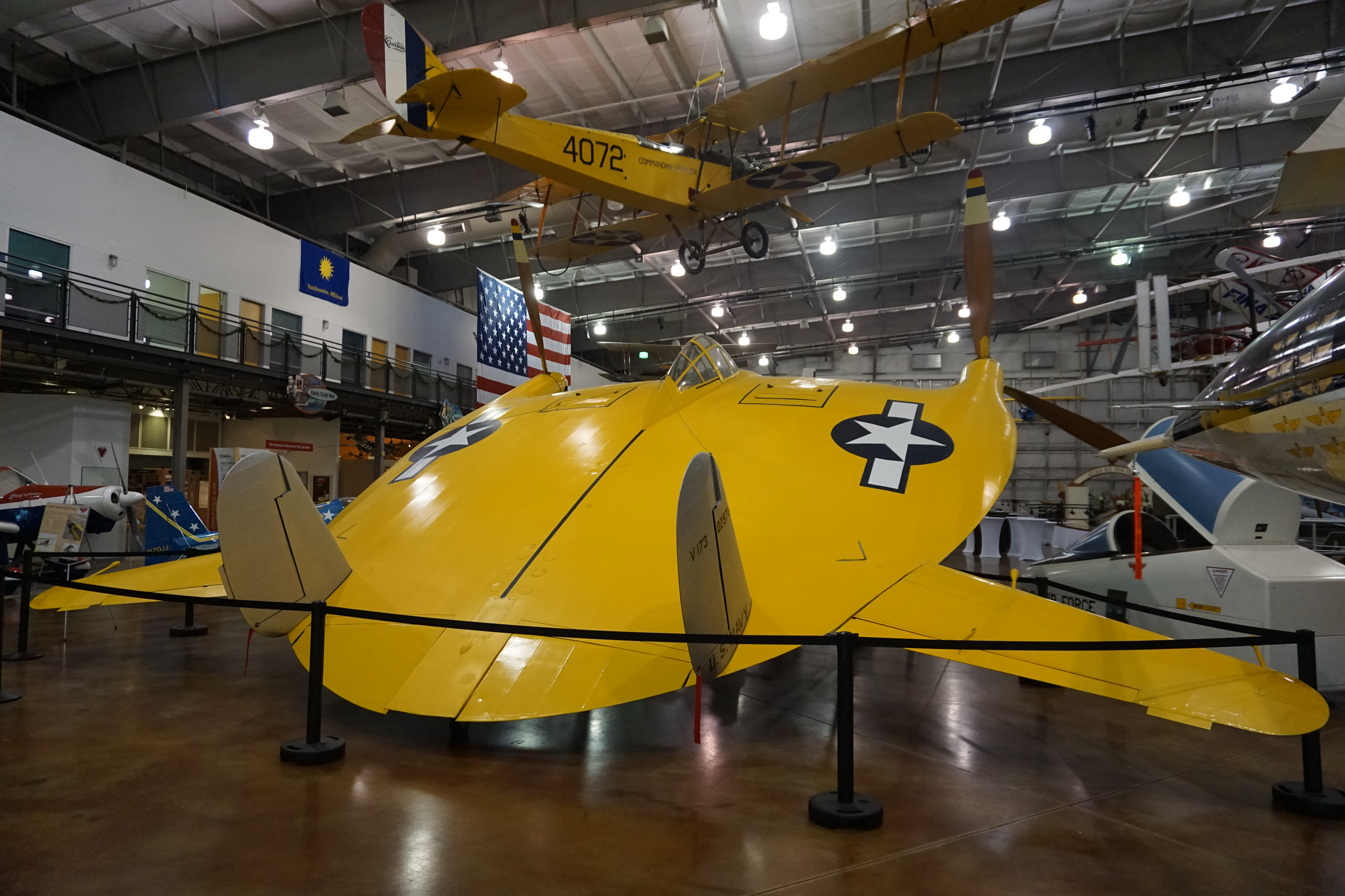 A Vought V-173 "Flying Pancake" on display at the Frontiers of Flight Museum at Dallas Love Field in Dallas, Texas (United States).